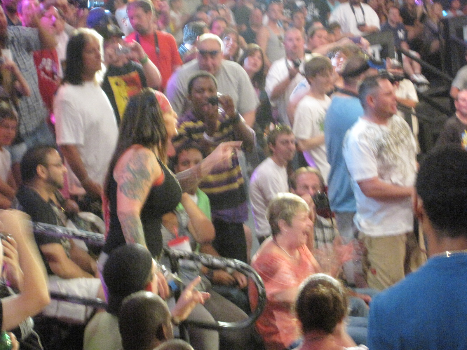 Impact Wrestling Taping. Monday, June 13, 2011 to air Thursday, June 16, 2011